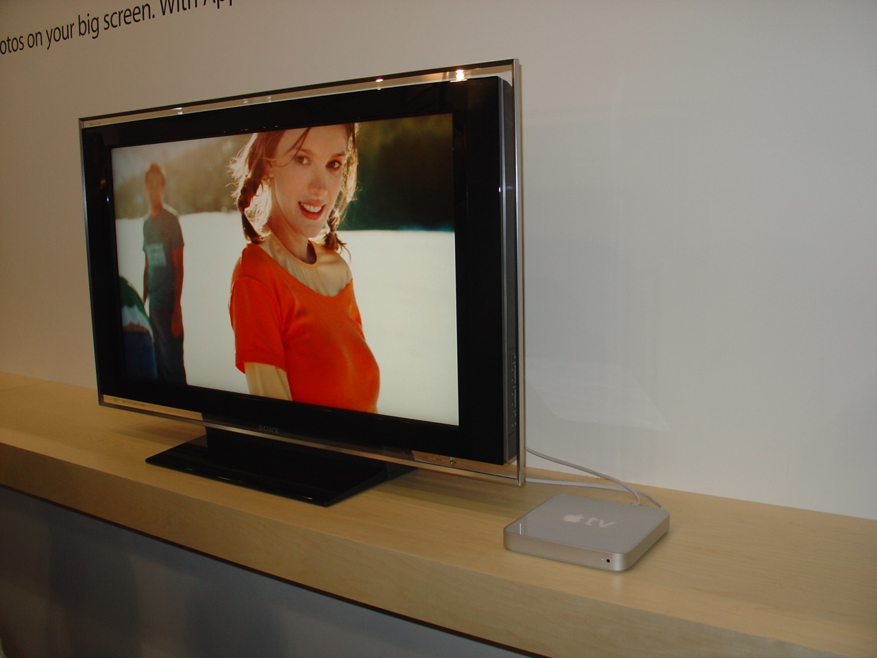 Apple TV and Sony flatscreen TV on display at Macworld San Francisco 2007.